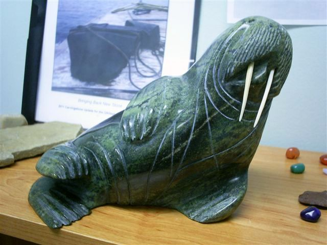 Carving 2012 Jonah Akpalialuk de Pangnirtung Nunavut 13.5cm high 22cm long in magnetic serpentinite.